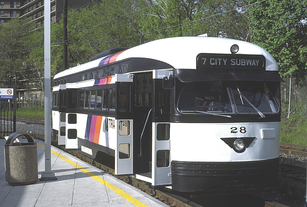 At the Franklin Avenue turnaround, New Jersey Transit #28 waits to begin its return trip to downtown Newark in April of 1985. This car would later be sold to the City of Bayonne for a future heritage streetcar line.